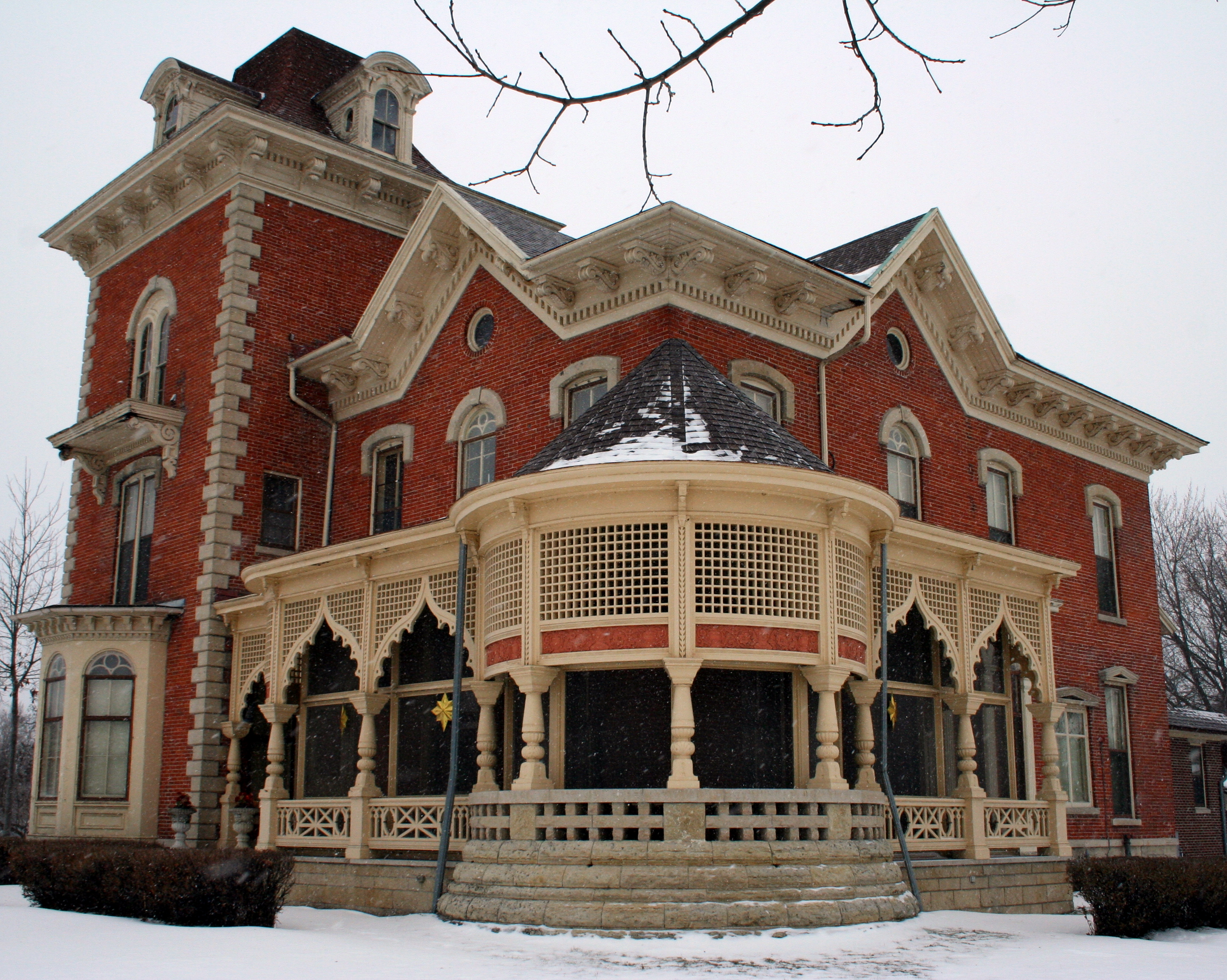 Historic Lamberton House on Huff Street in Winona, Minnesota.